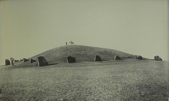 Большой Салбыкский курган до раскопок (1910 г.).